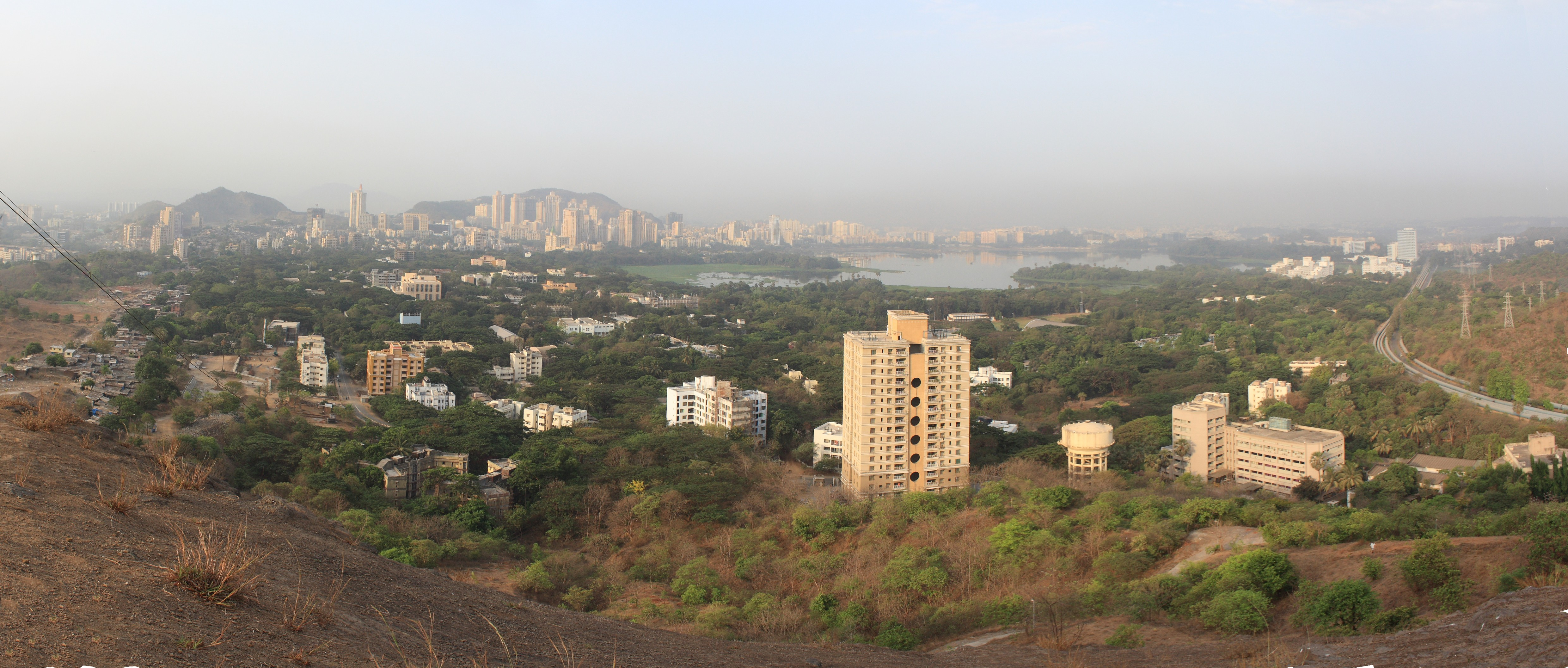 Campus of IIT Bombay seen from the hilltop, which also belongs to the Campus - the fence is right in my back. Taken from 100 meters above the campus. The high-rise buildings in the background belong to Hiranandani Gardens.